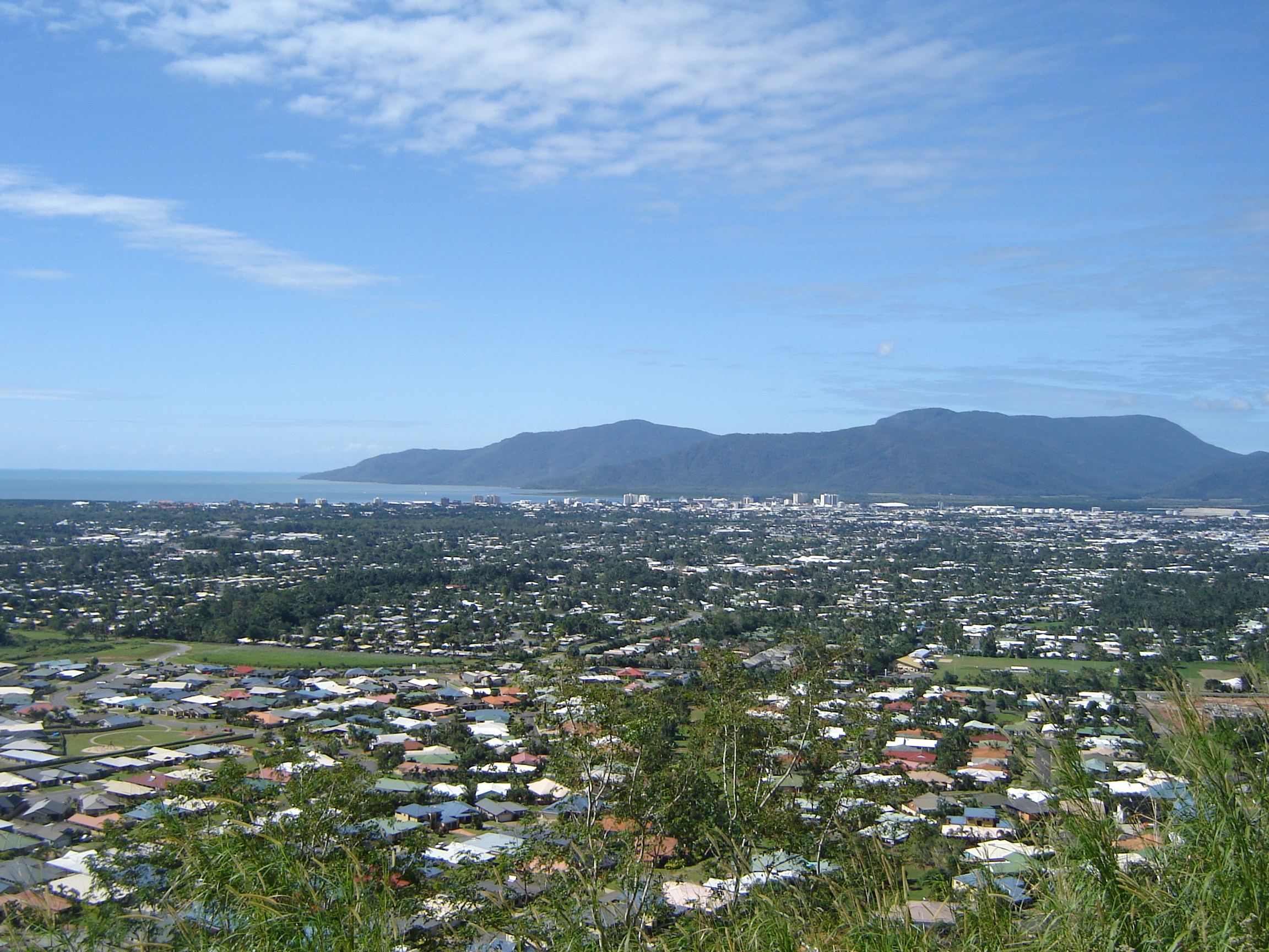 View of Cairns from Lake Morris with the Yarrabah peninsula in the background. Photo taken by Frances76.